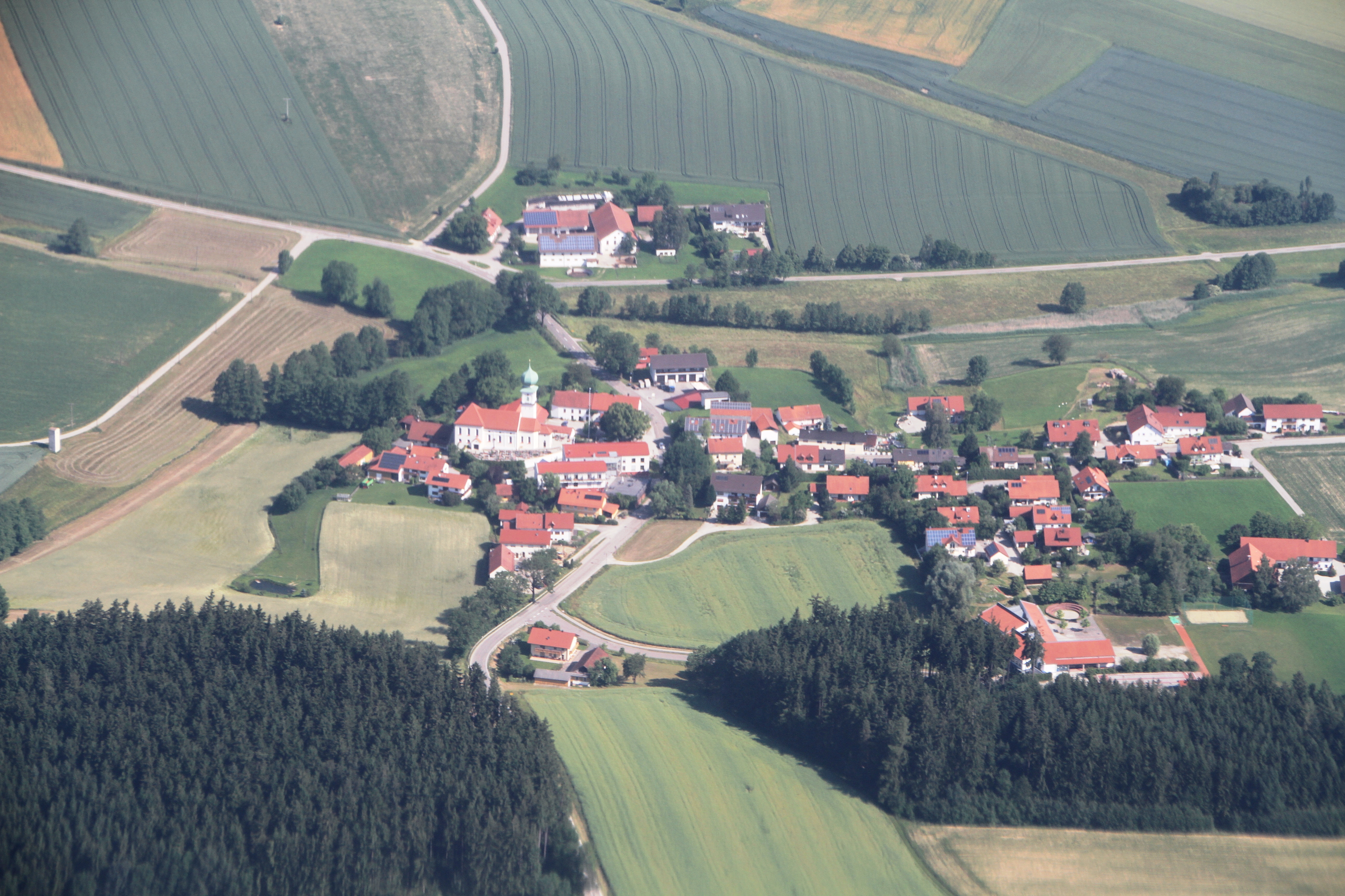 Aerial view from the Erding landkreis (county), just northeast of Munich, Bavaria (Germany)